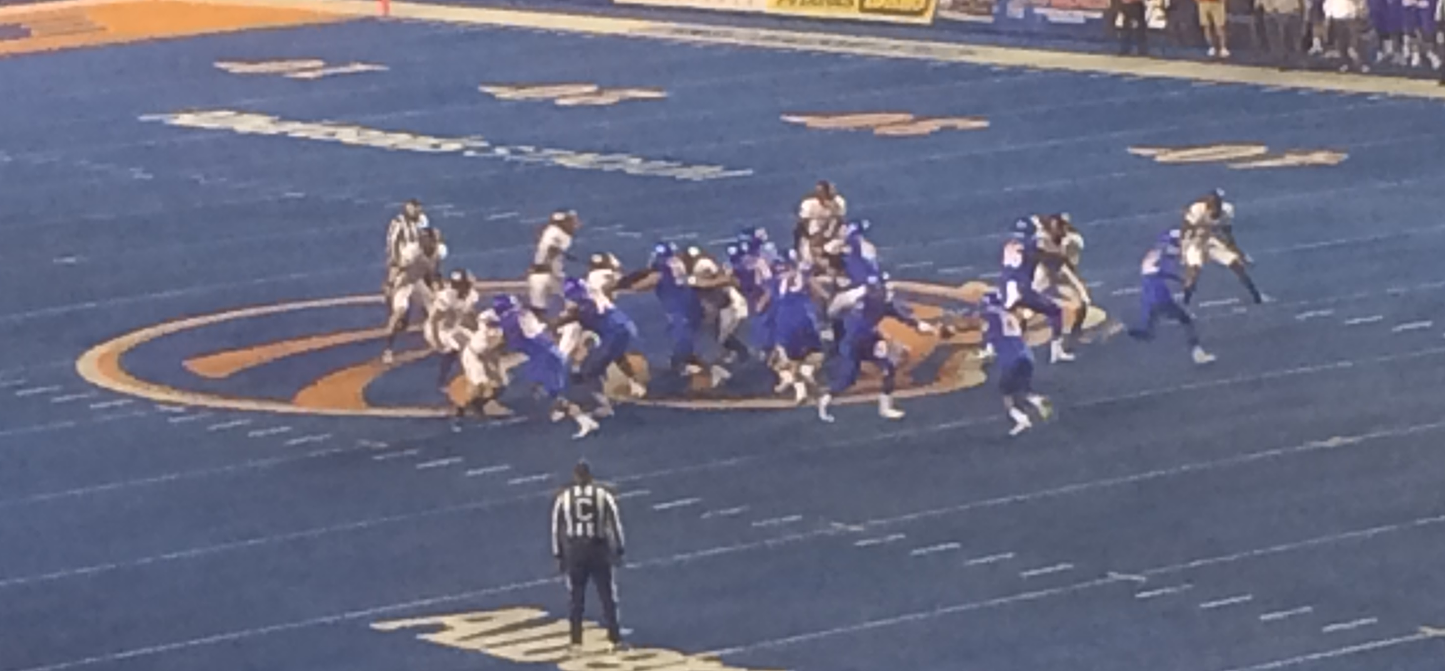 Boise State on offense during their game vs UNLV on November 18, 2016 at Albertsons Stadium in Boise, Idaho.